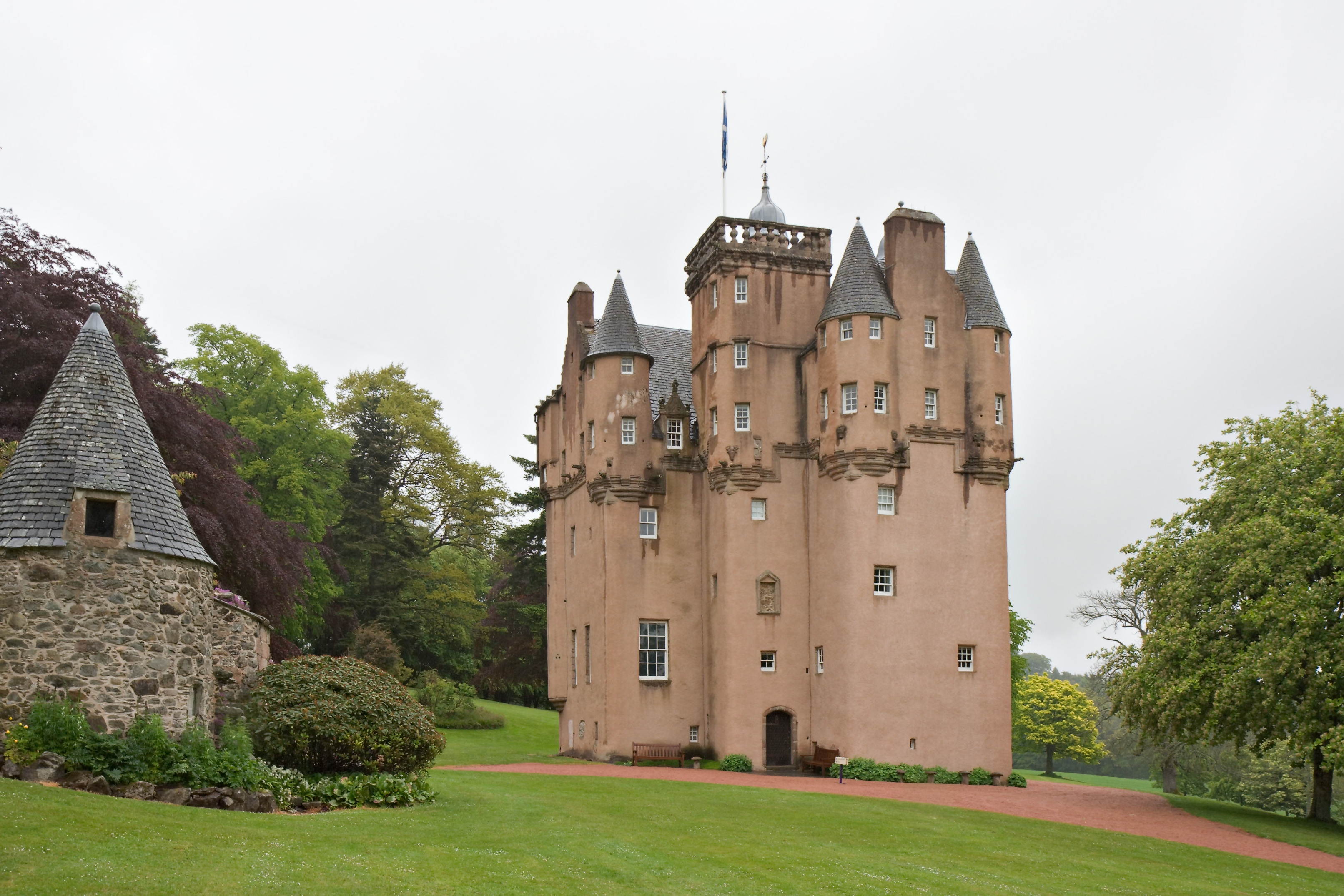 Craigievar Castle with typical Scottish weather, Aberdeenshire, Scotland